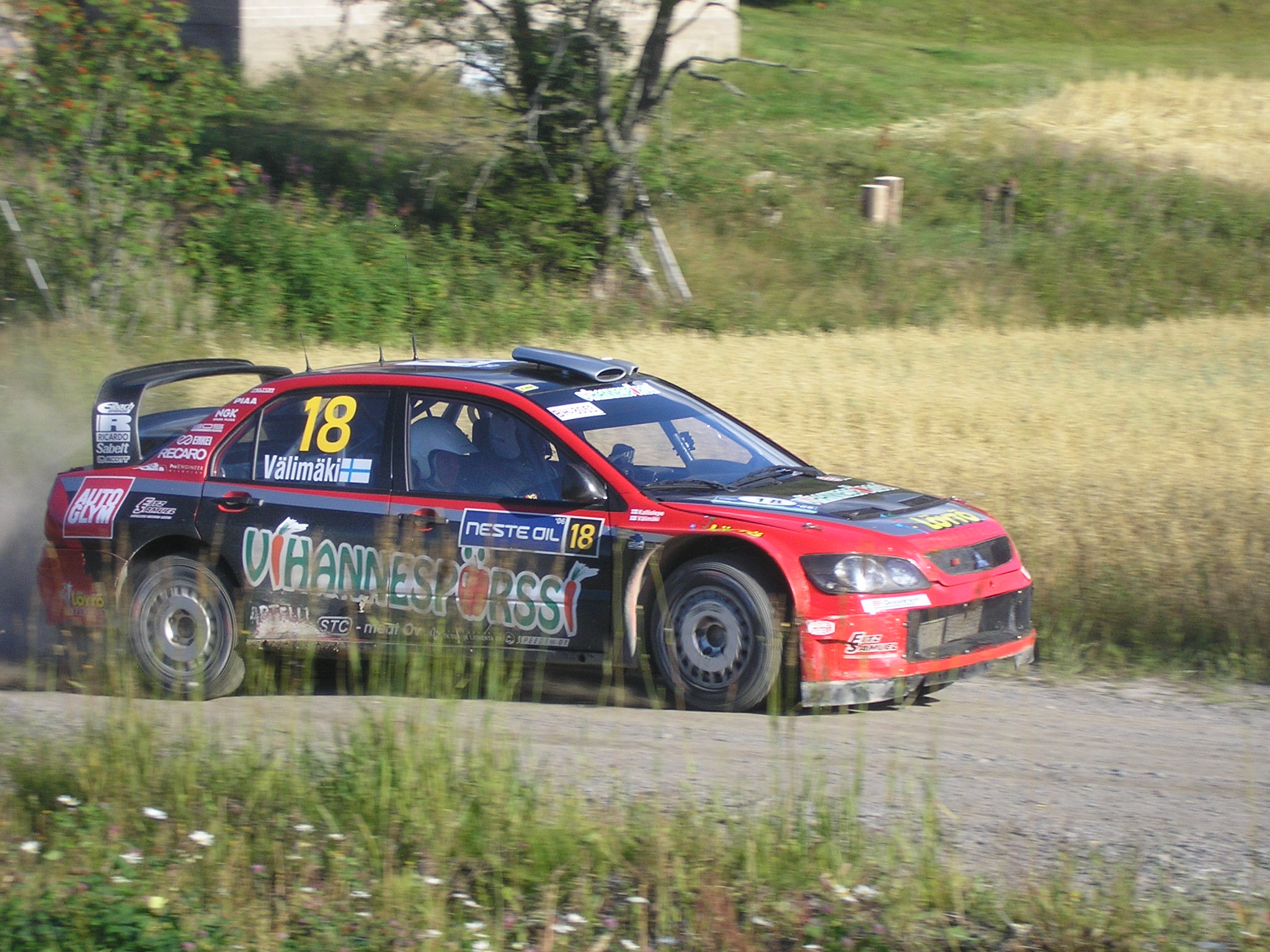 Jussi Välimäki at Moksi-Leustu stage during Rally Finland 2006.